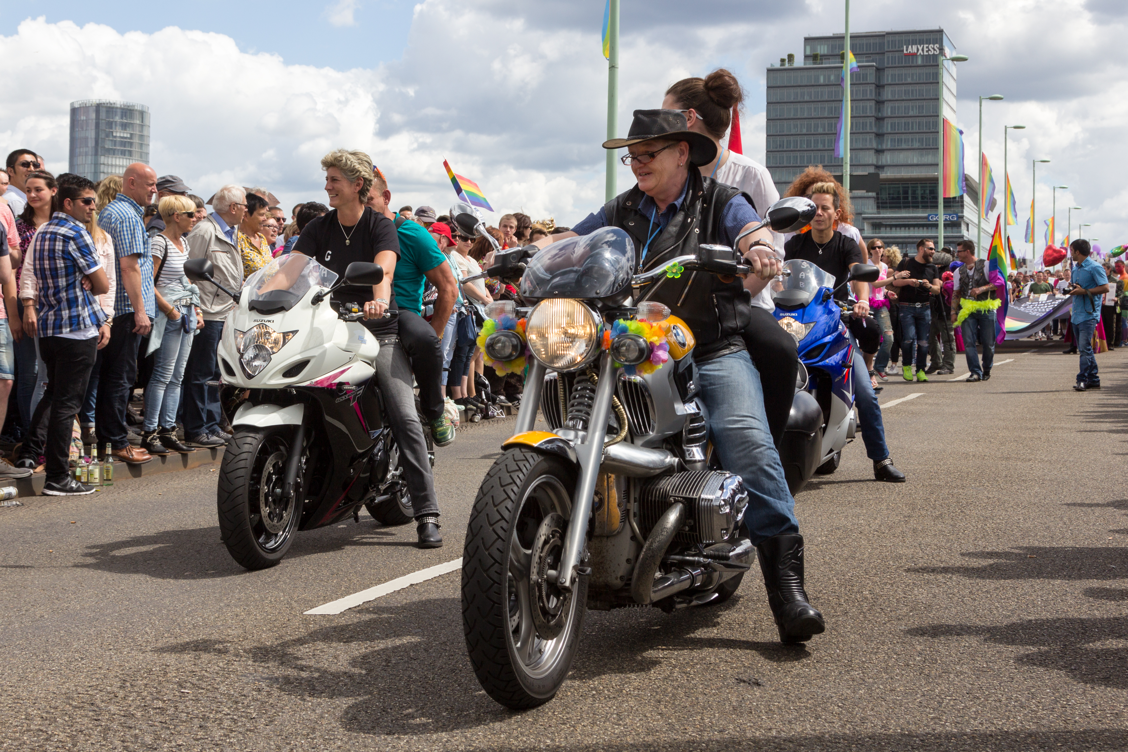 Dykes on Bikes leading ColognePride 2016, on the Deutz Suspension Bridge